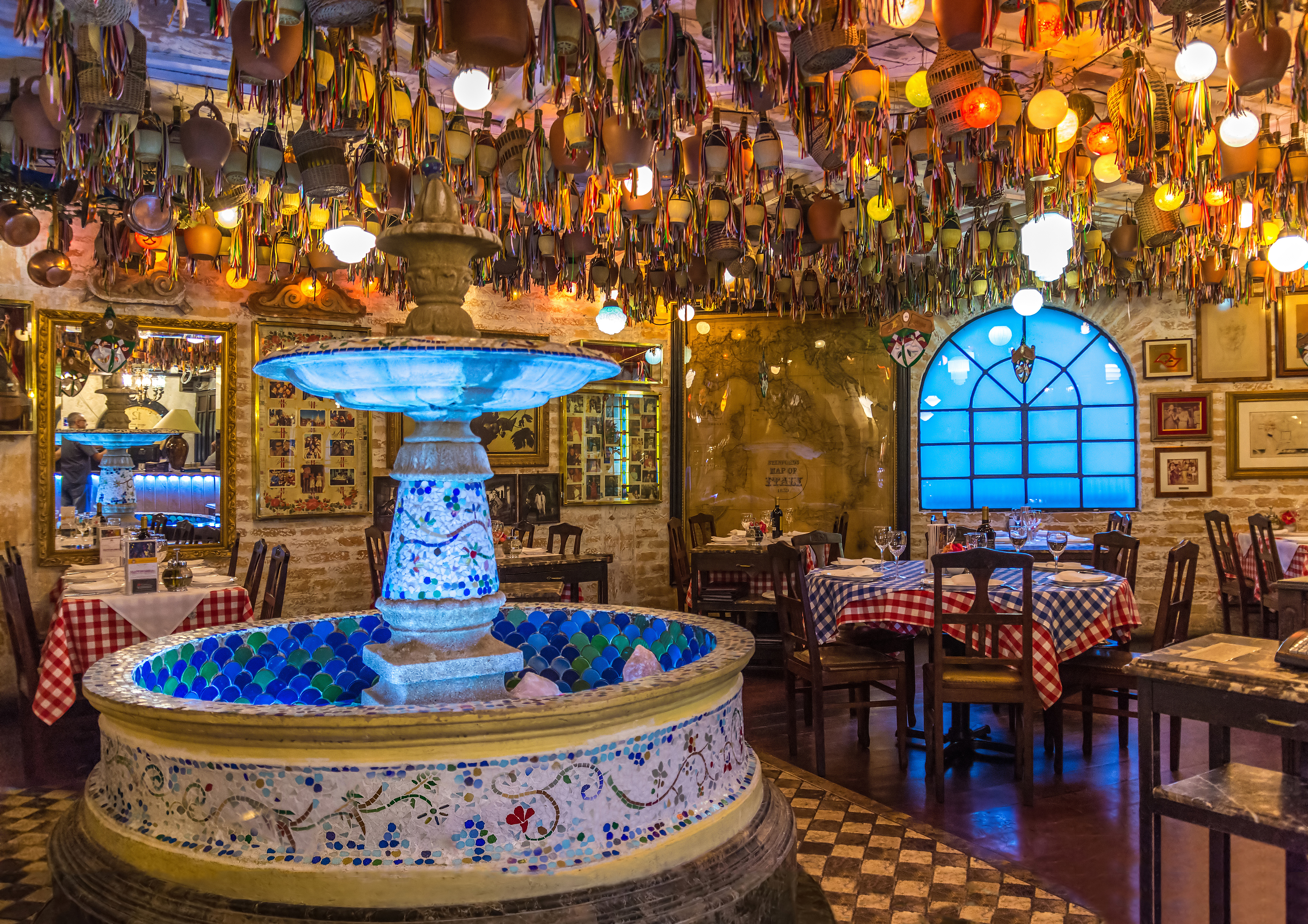 Famiglia Mancini, São Paulo, Brazil